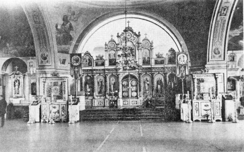 Kyyrölä church before Winterwar.